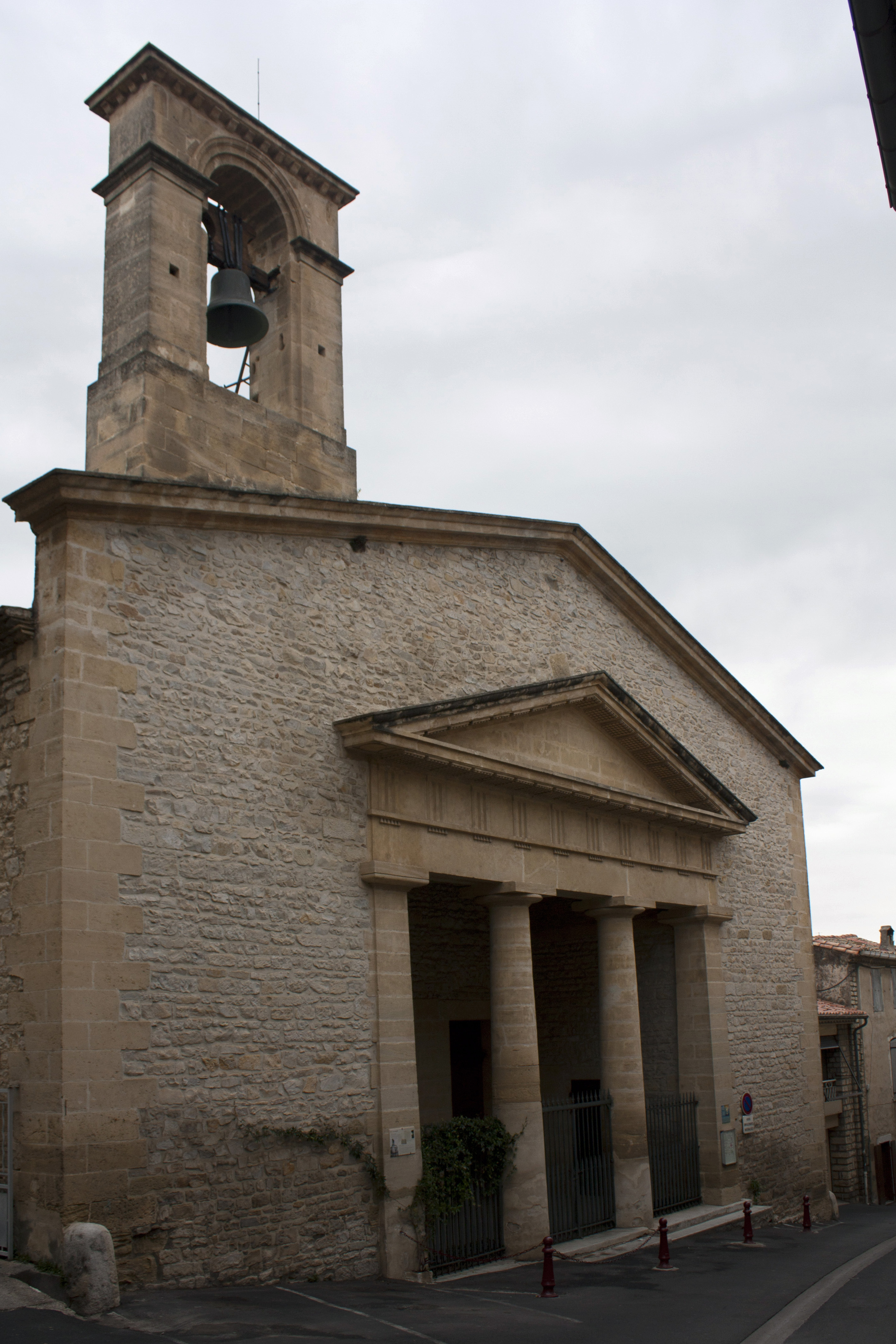 It was not good weather ... but there was no cars!